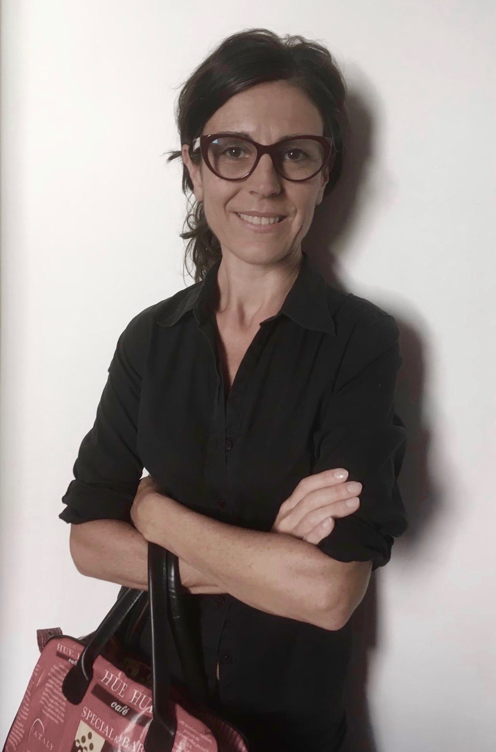 portrait